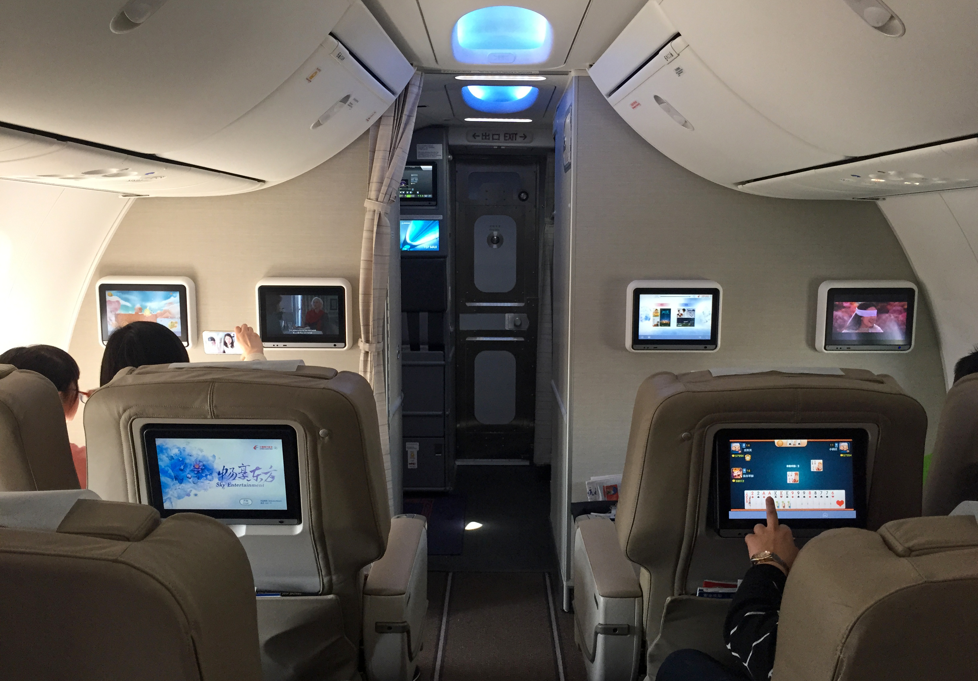 China Eastern 5802 from Shanghai Hongqiao to Kunming.